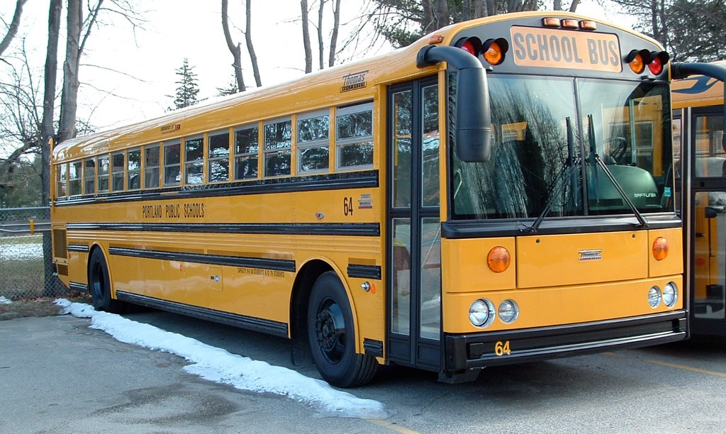 Photograph of a 2006 Thomas Saf-T-Liner HDX operated by Portland Public Schools in Portland, Maine. This bus is powered by compressed natural gas. Description from Flickr: The school system in Maine's largest city, Portland, has worked with the Maine Department of Environmental Protection to gradually add Compressed Natural Gas (CNG) school buses to its fleet. Portland's public schools now have nine CNG buses in their fleet and plan to add a tenth this year. The public school system acquired its first CNG bus in 2006.